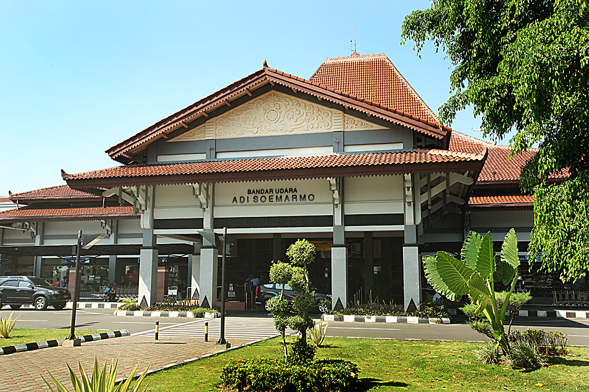 CoolFrame Photography